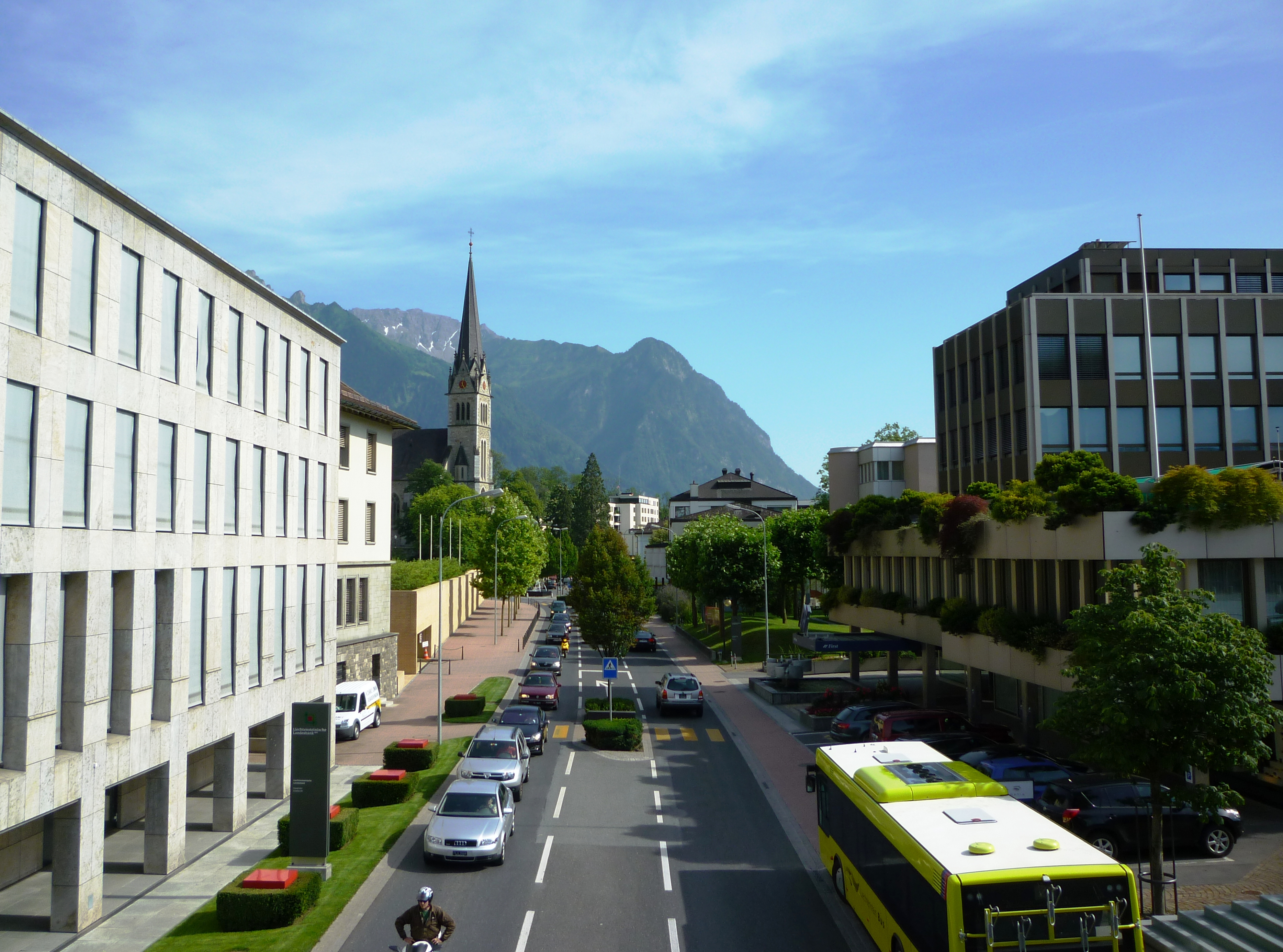 Center of Vaduz, the capital of Liechtenstein; looking to the cathedral